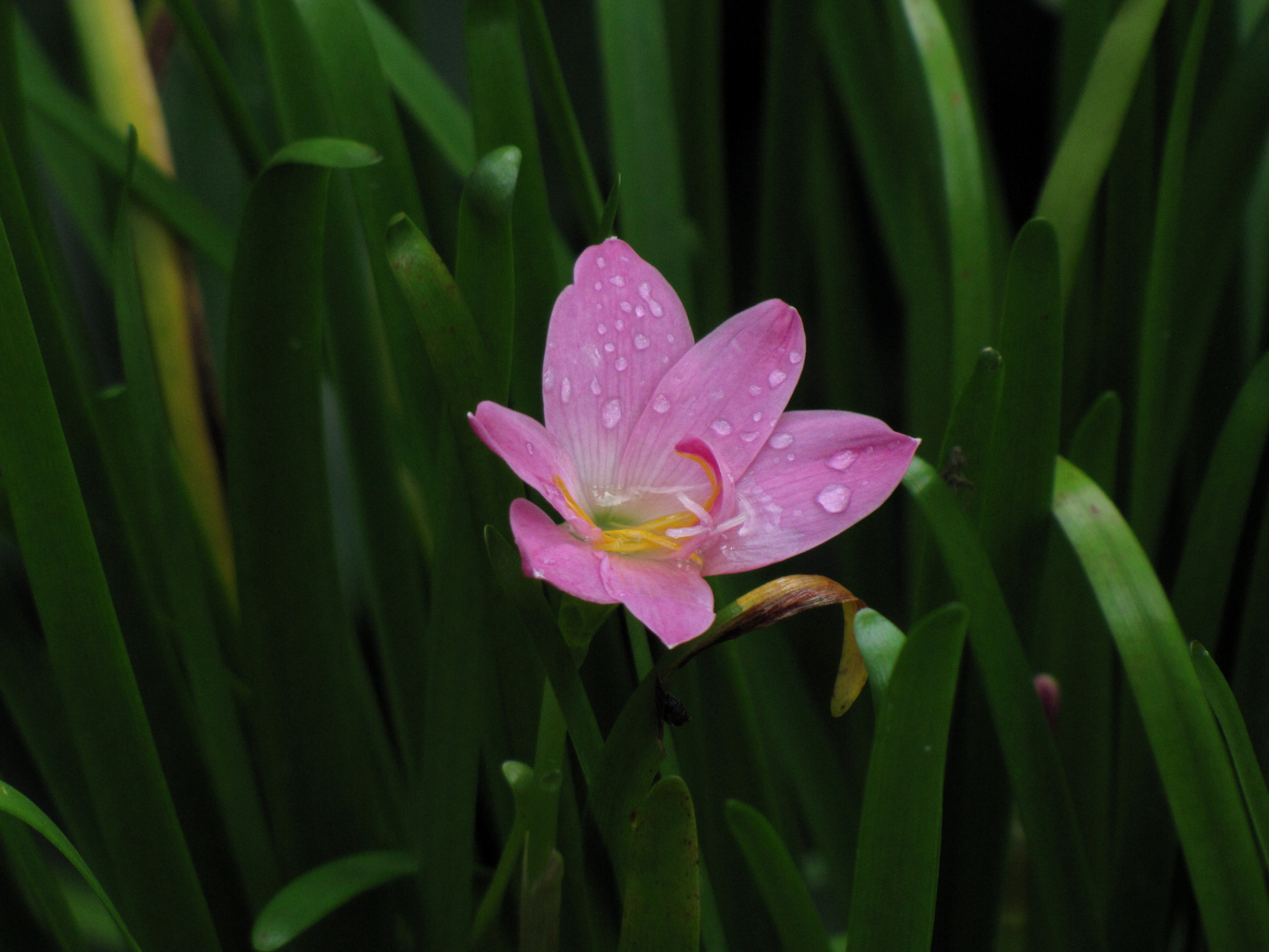 A Zephyranthes rosea flower from Koovery